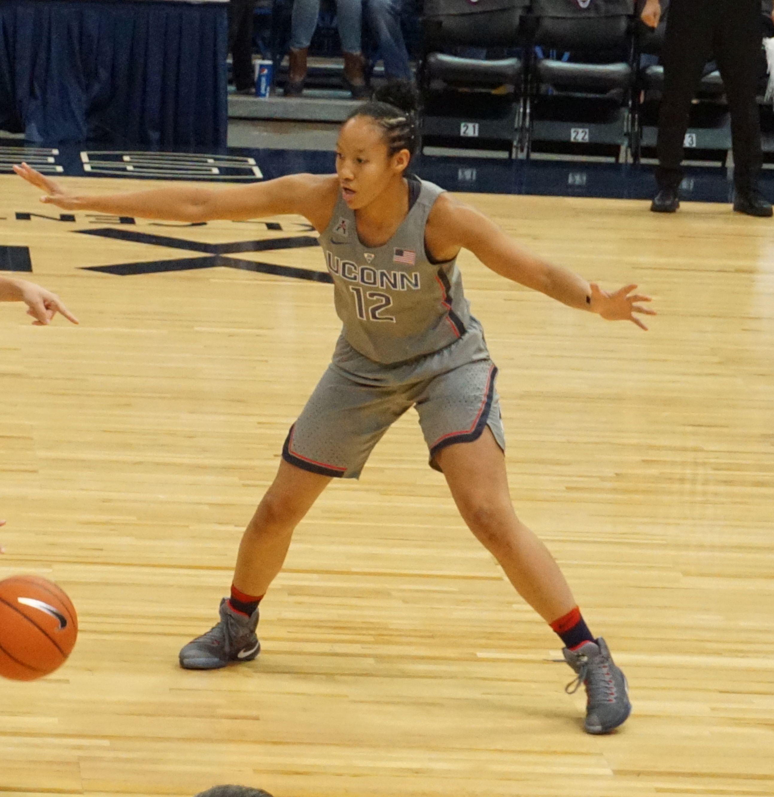 Saniya Chong playing in an exhibition game against Pace University 6 November 2016